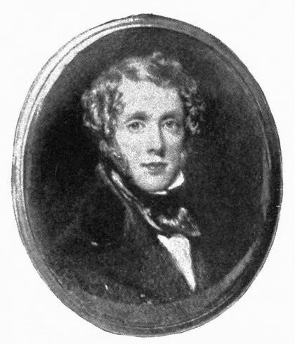 Thomas Crane, painted by himself around 1840.